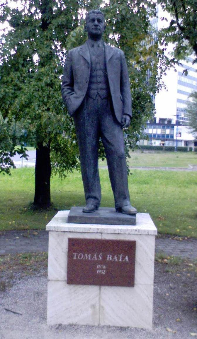 Tomáš Baťa (Svit, Slovakia)